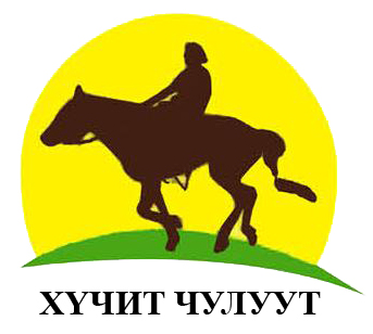 Khuchit Chuluut